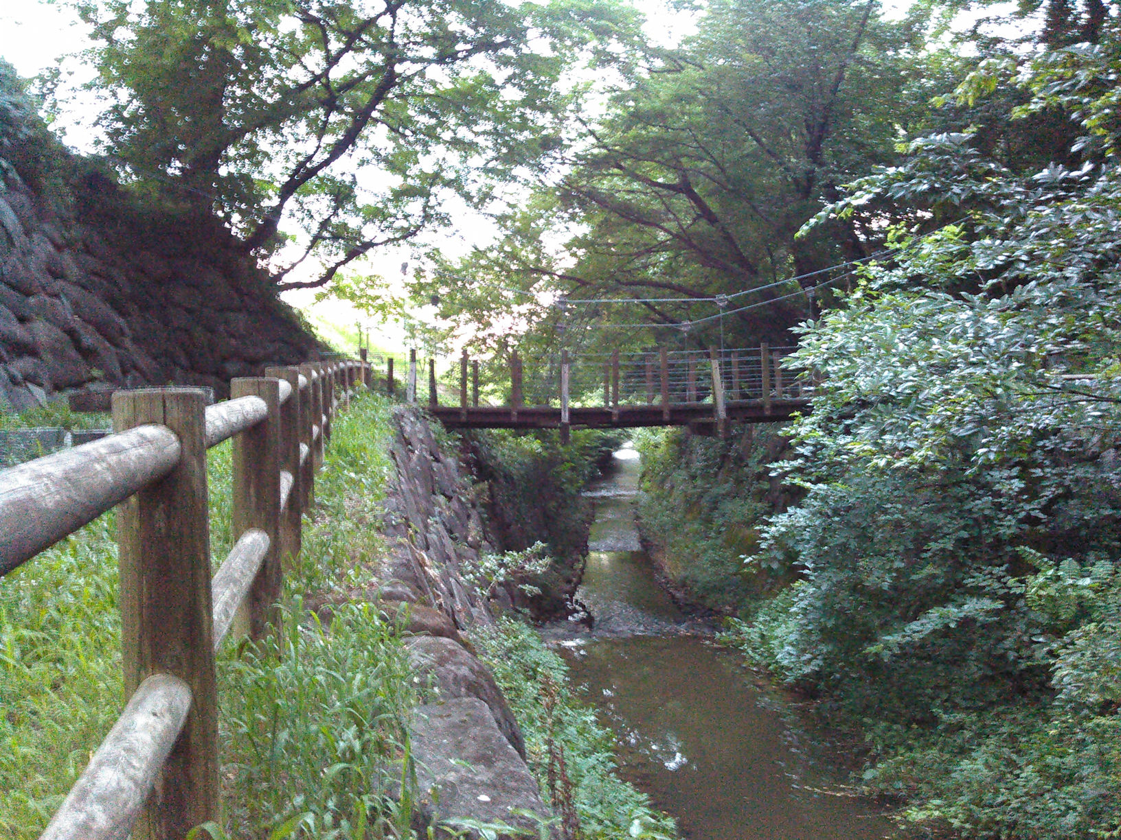 南川渓谷の吊り橋